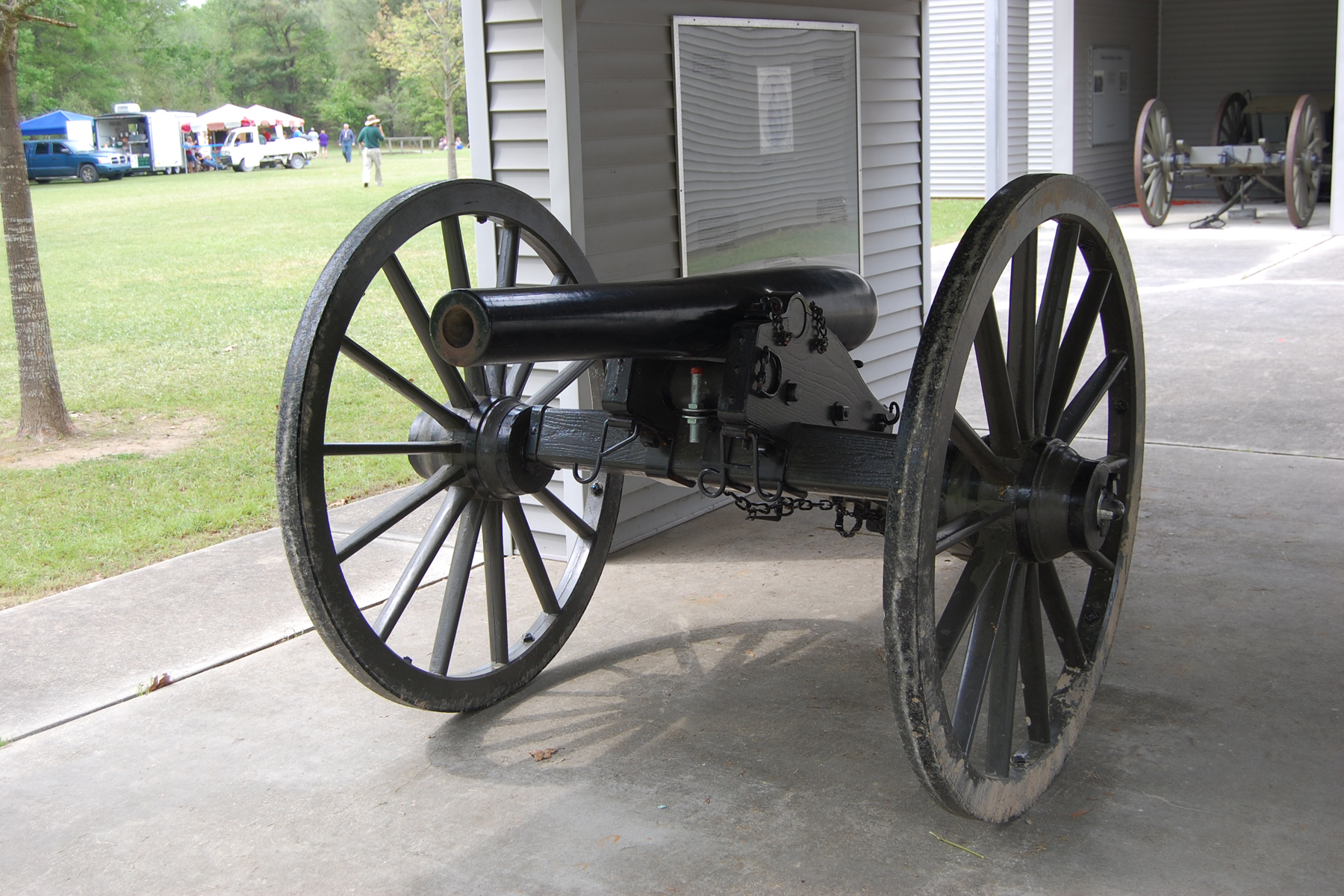 US Army 3" Ordnance Rifle Model 1862 photographed at the Port Hudson State Historic Site